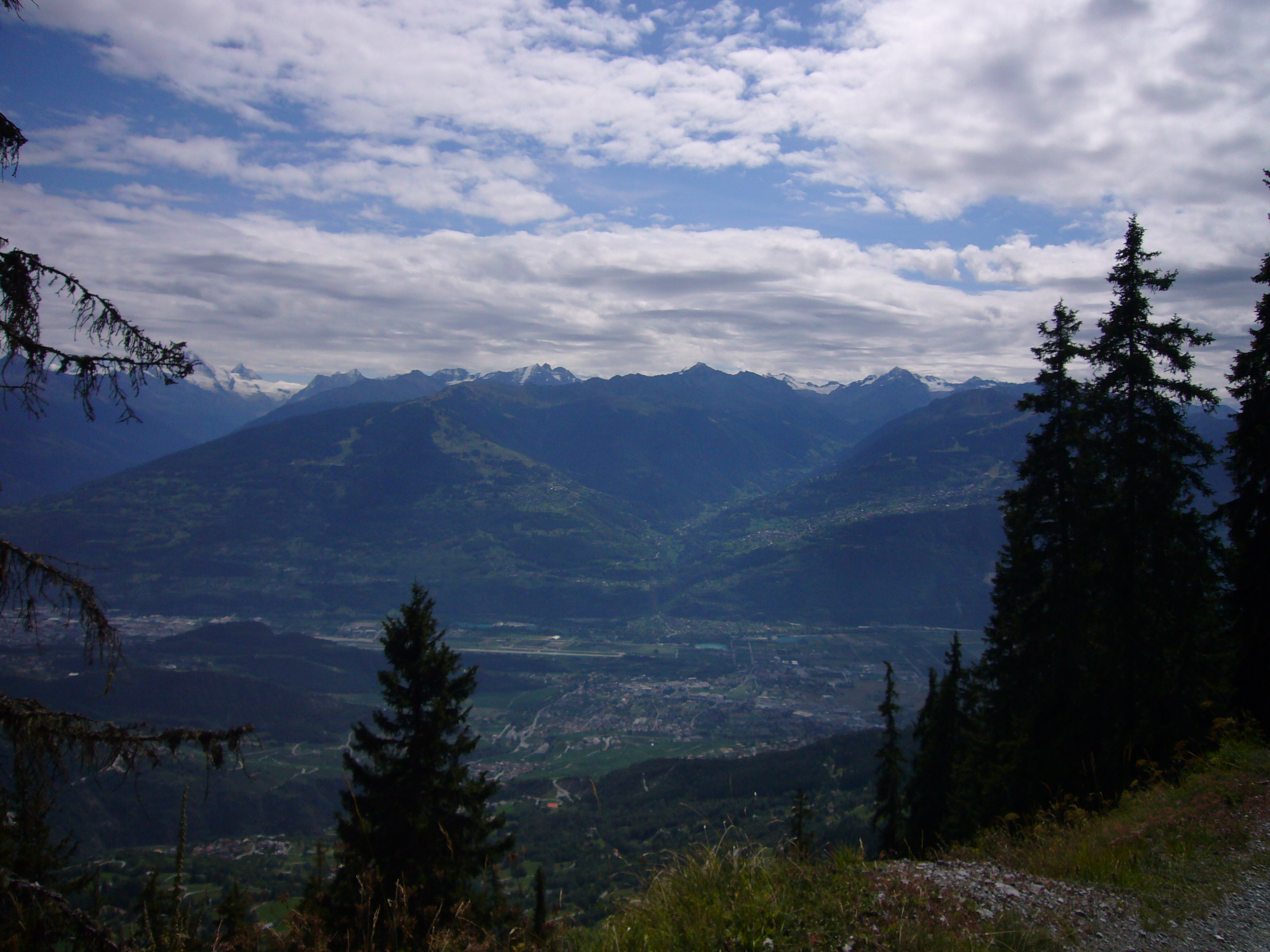 Near Mayens-de-Conthey in Conthey, Valais, Switzerland